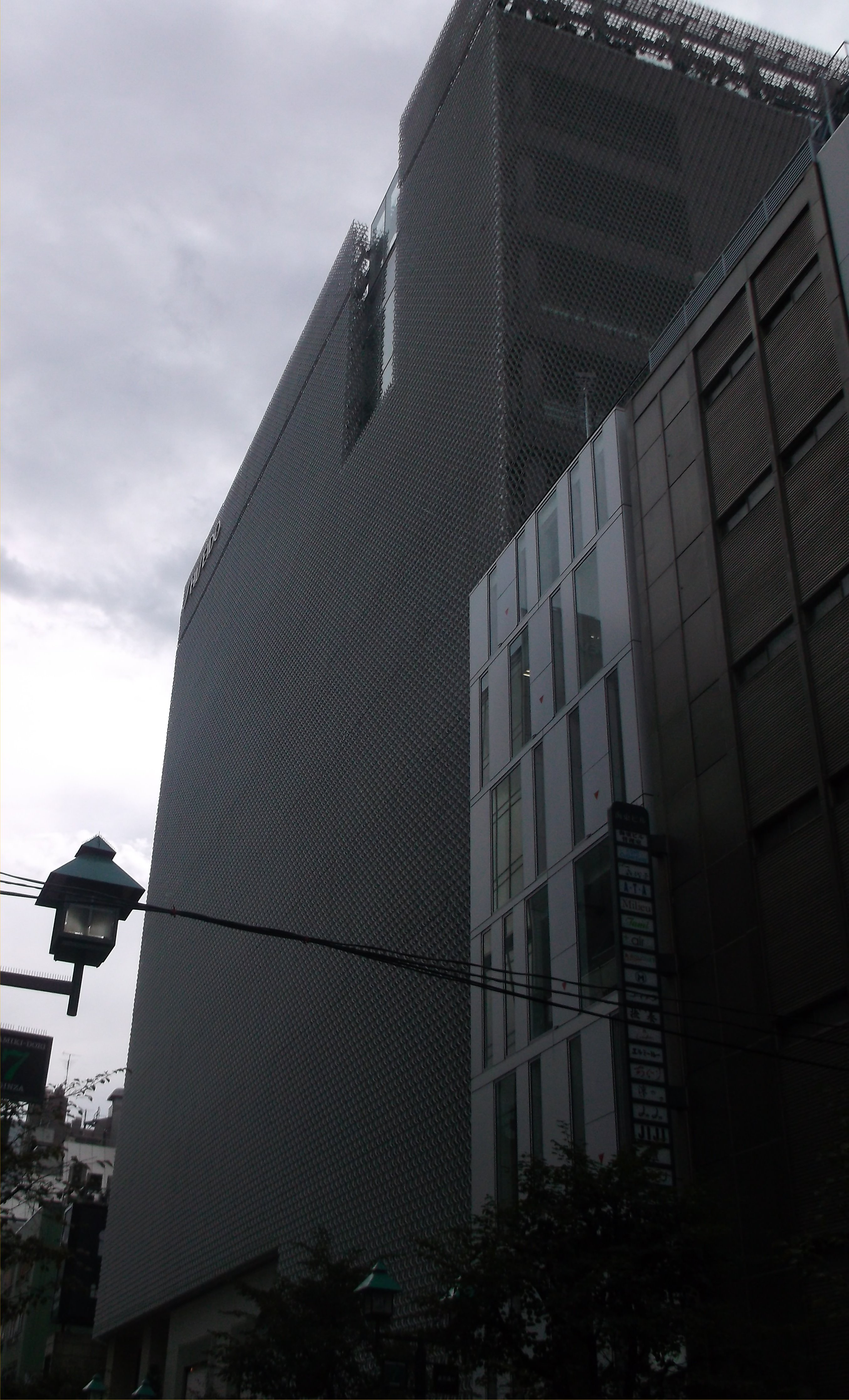 A photo of Shiseido head office,Ginza,Chuo-ku,Tokyo,Japan.